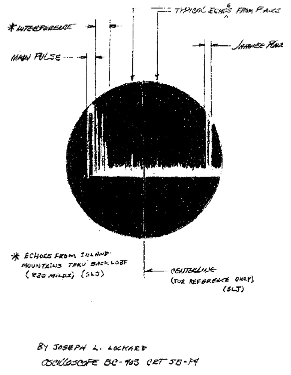 Image of the Opana Point SCR-270 radar screen at 7:02 am on the morning of December 7, 1941, showing what turned out to be a force of Japanese aircraft about to attack Pearl Harbor. Image is from the BC-403 oscilloscope using a 5BP4 CRT.